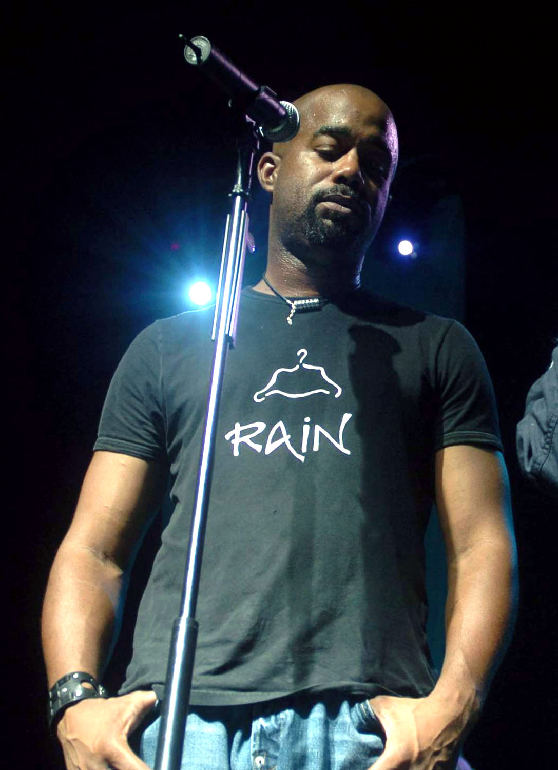 Yokota Air Base, Japan -- Darius Rucker, lead singer of Hootie and the Blowfish, listens to Staff Sgt. Tami Bonne sing "Amazing Grace" during an Operation Pacific Greetings tour concert here May 19.